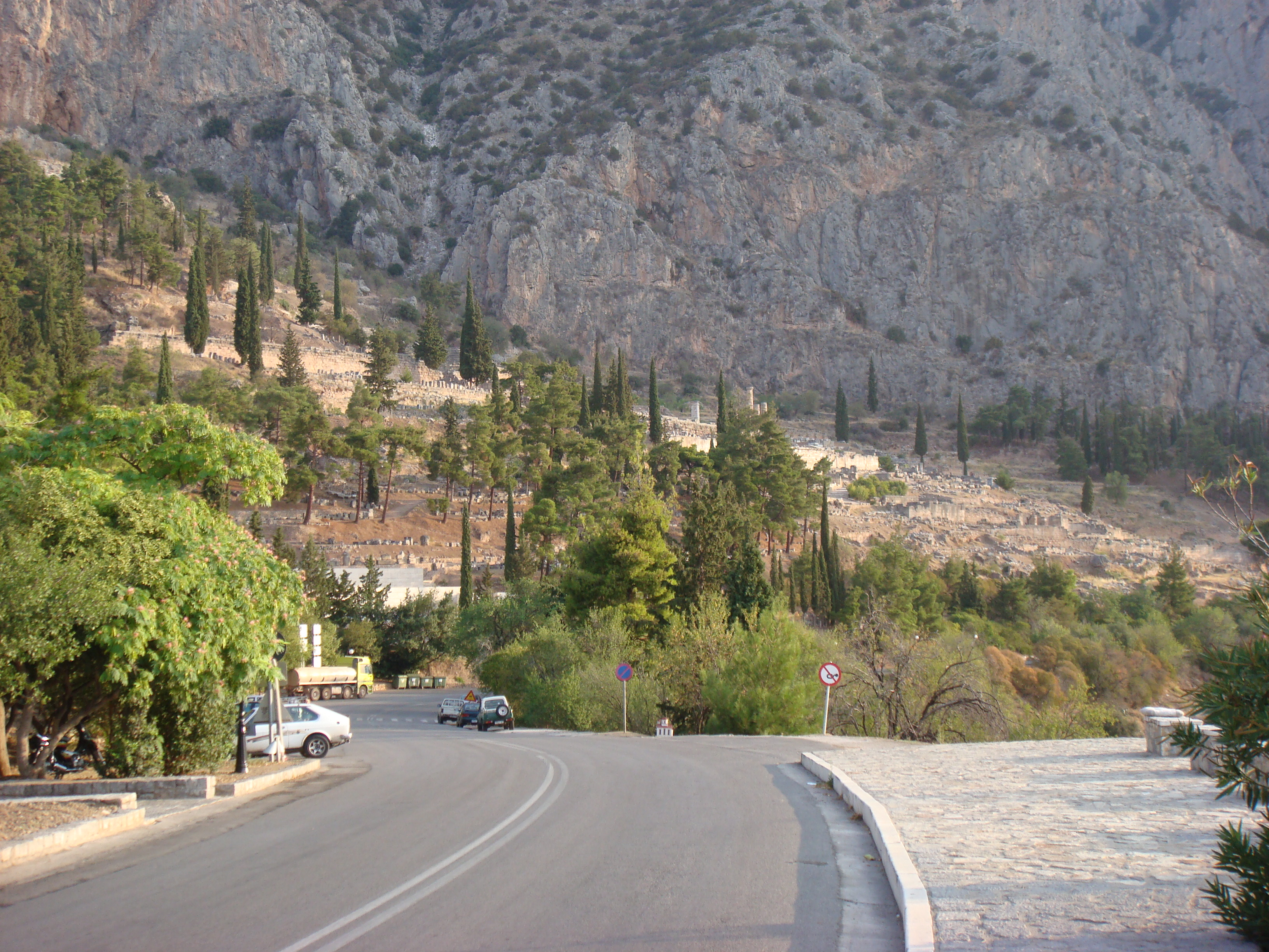 The archaeological site of Delphi seen from the road.